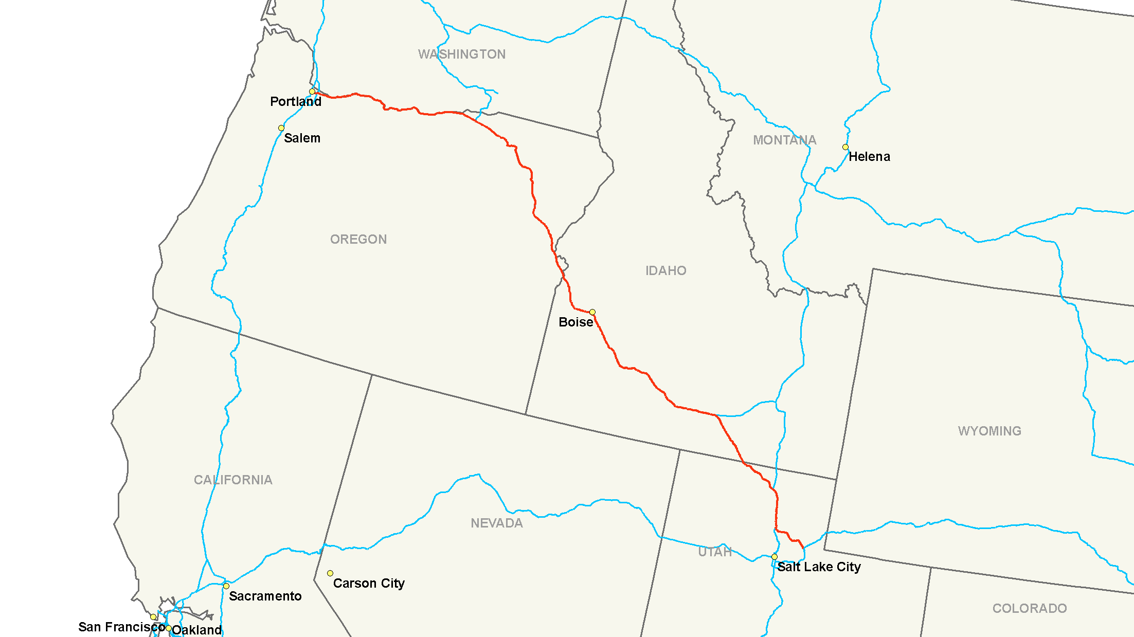 Map of Interstate 84 (West)